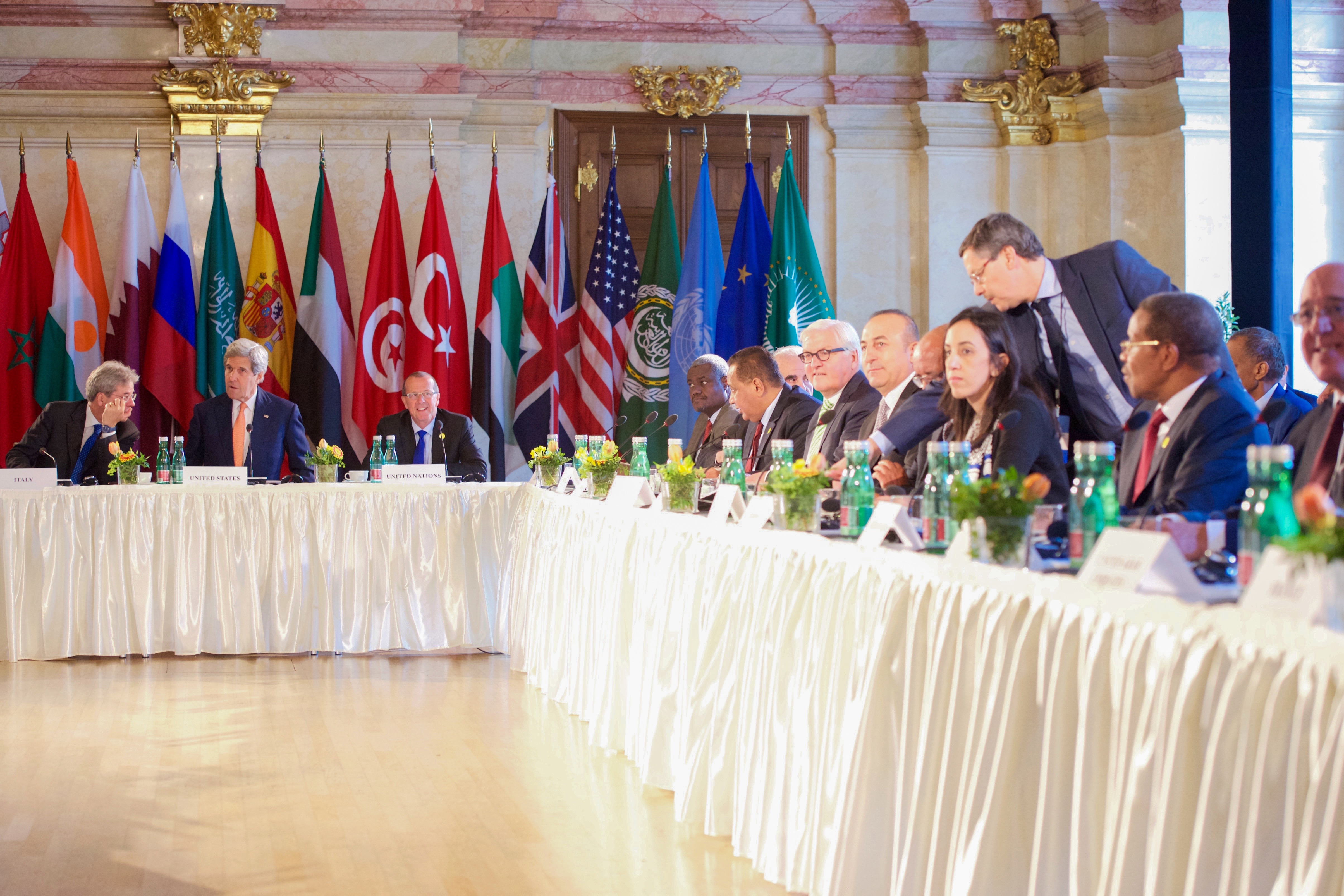 U.S. Secretary of State John Kerry sits between Italian Foreign Minister Paolo Gentiloni and United Nations Special Representative for Libya Martin Kobler at the Palais Niederosterreich Hotel in Vienna, Austria, on May 16, 2016, at the outset of a Libya Ministerial Meeting attended by representatives of 22 countries - including Libya - and four international organizations. [State Department photo/ Public Domain]